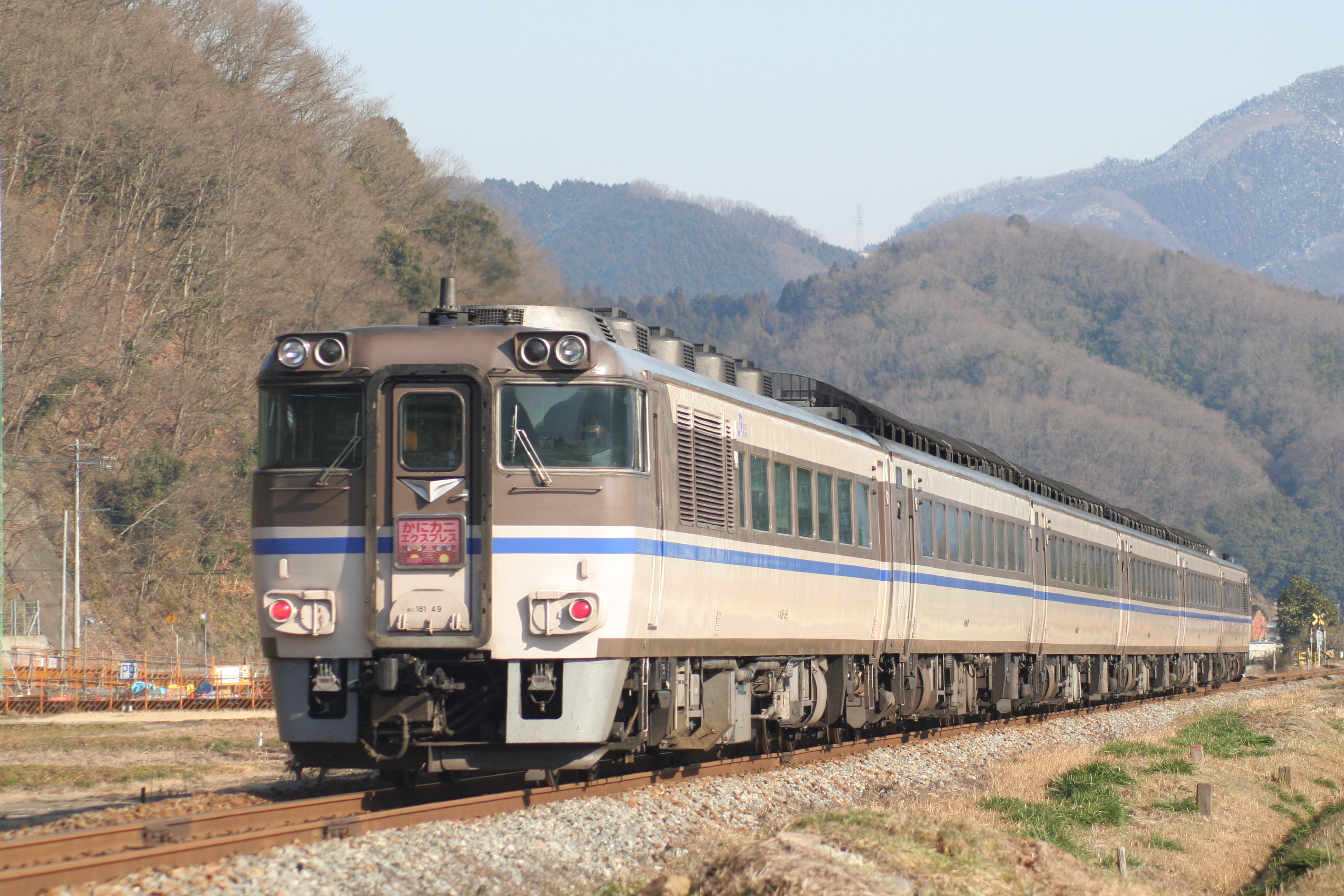 West Japan Railway DC kiha181 Limited Express Kanikani Hamakaze Bantan Line